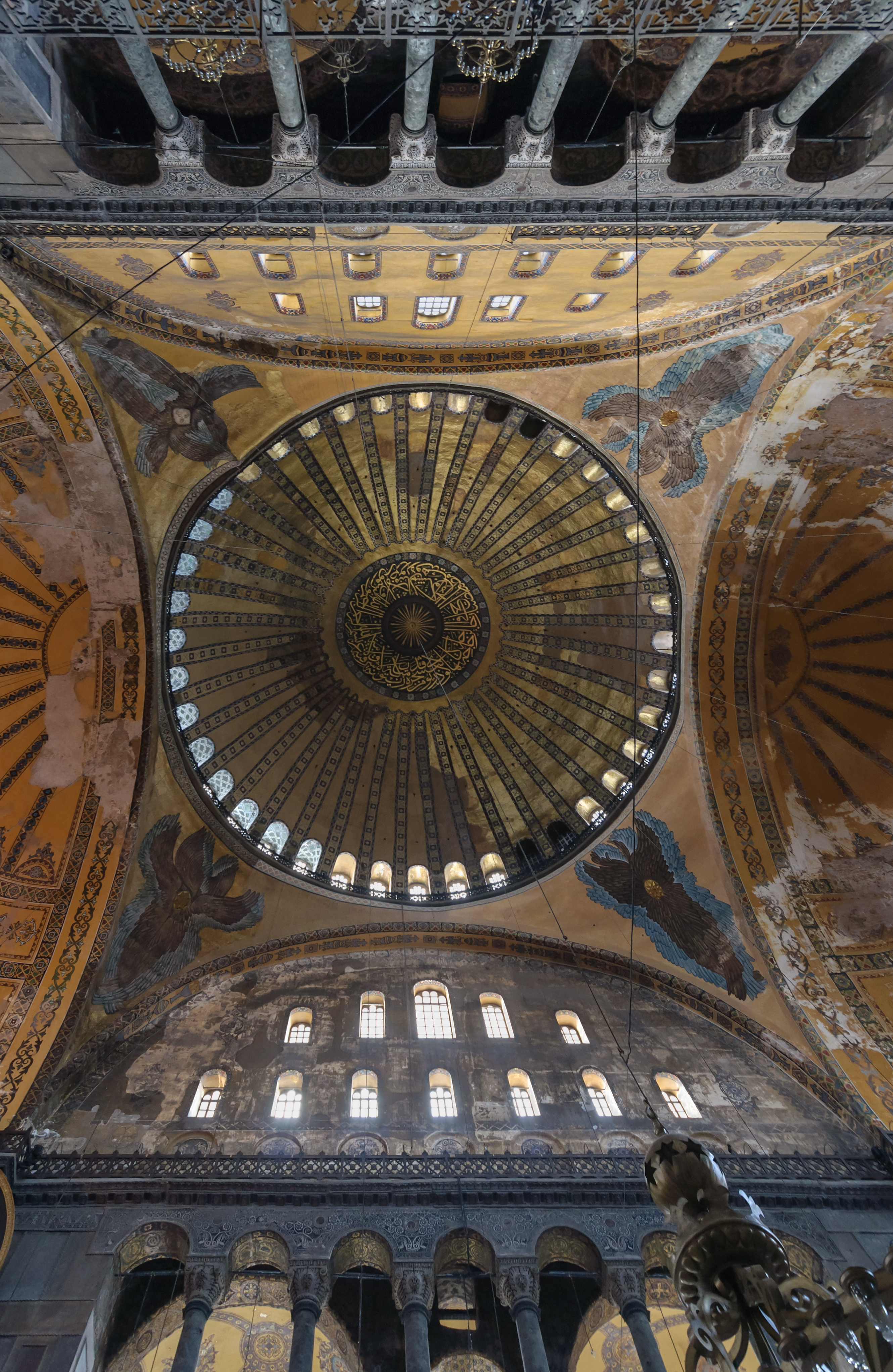 View of the cupola of Hagia Sophia (Istanbul, Turkey)